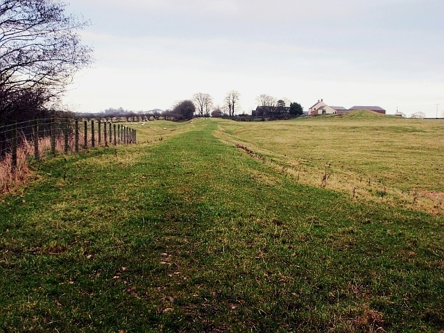 Hadrian's Wall Path to Bleatarn. The path here directly follows the line of the demolished Roman wall.